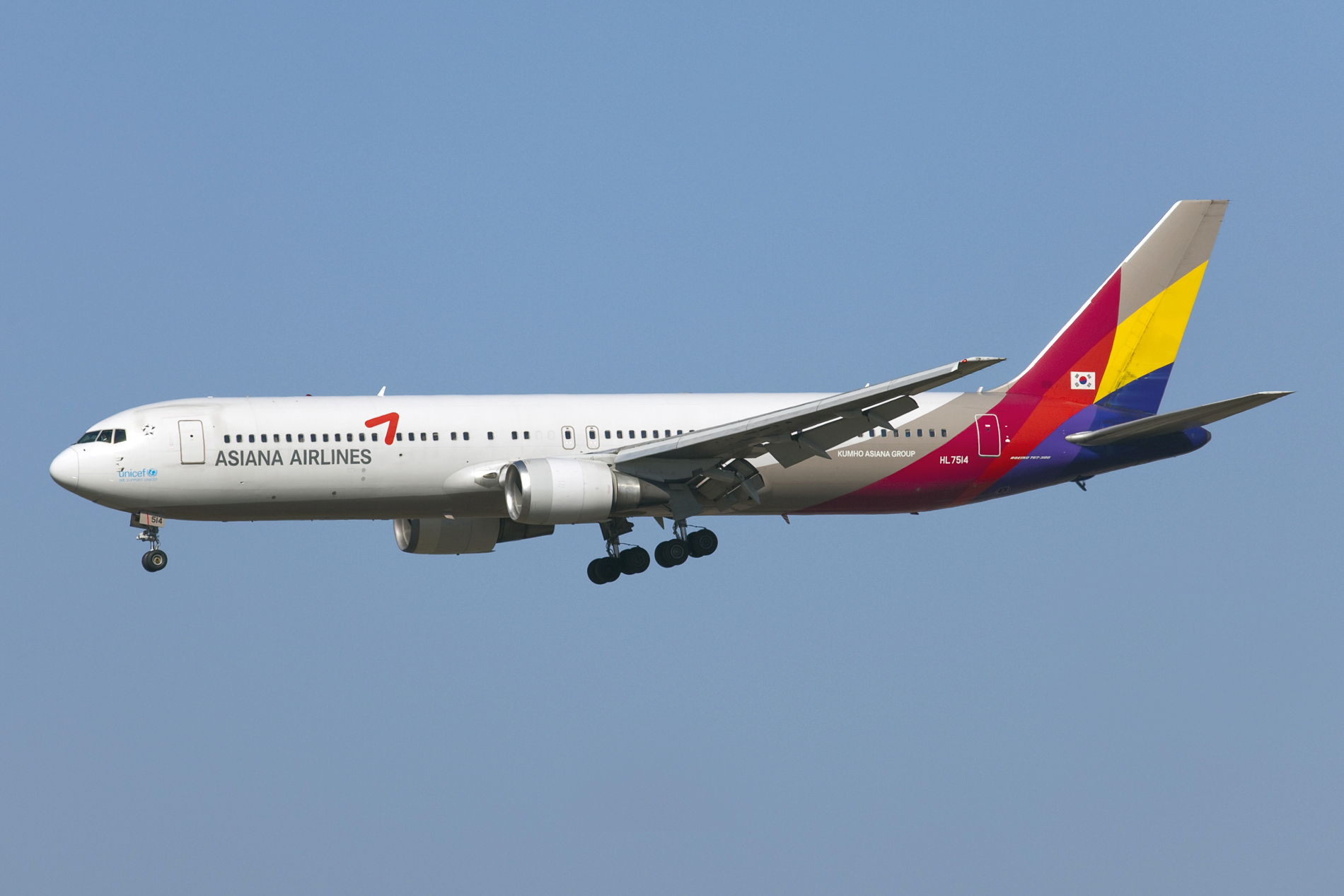 Seoul-Incheon